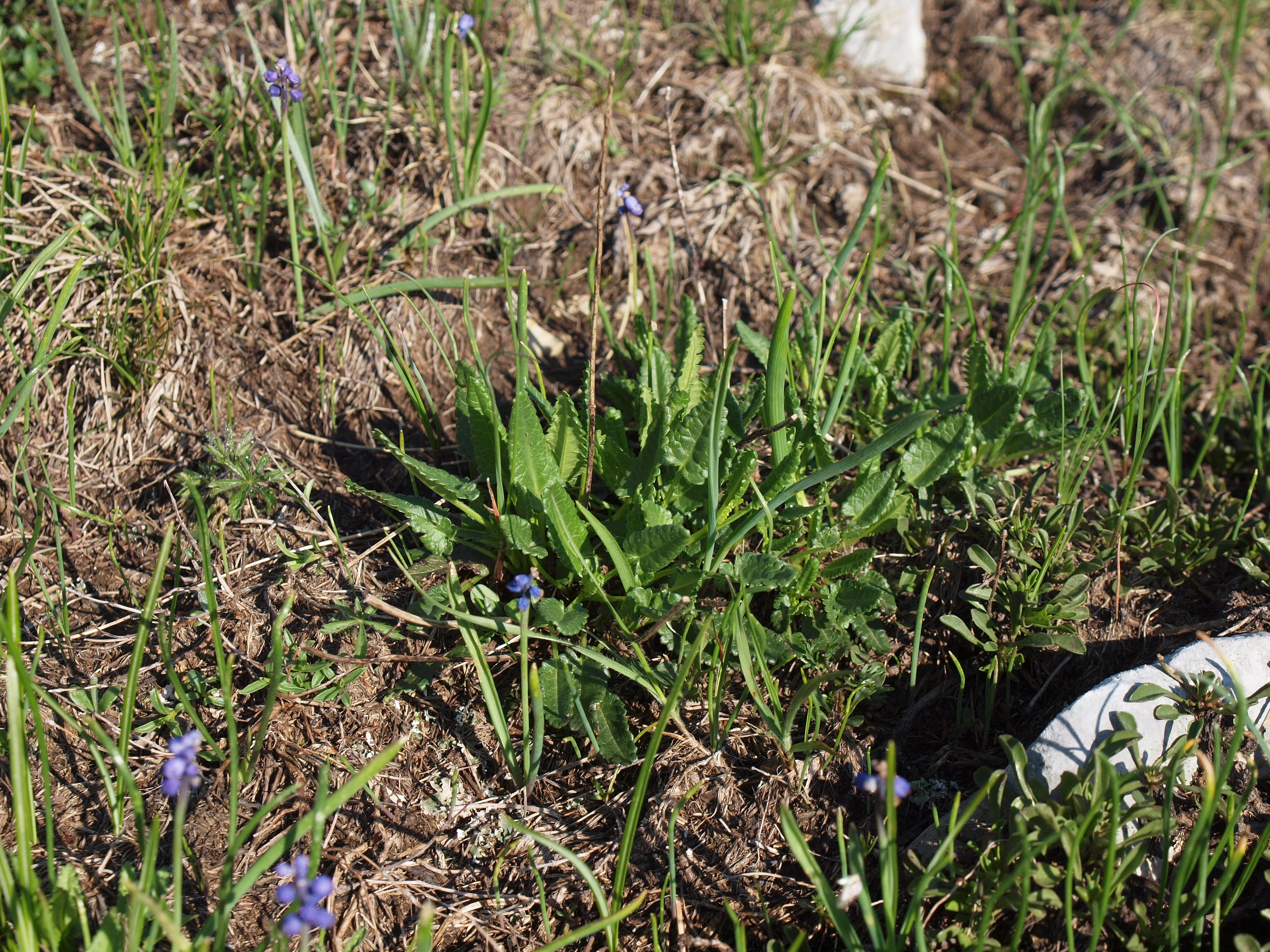 Muscari botryoides and Bettonica var. at Snowbed site (Schneetälchen) Mt. Orjen